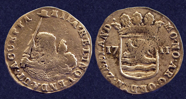 Zeeland, Hoedjesschelling (6 stuivers), struck 1711. Recovered from the VOC shipwreck 'de Zuytdorp'.